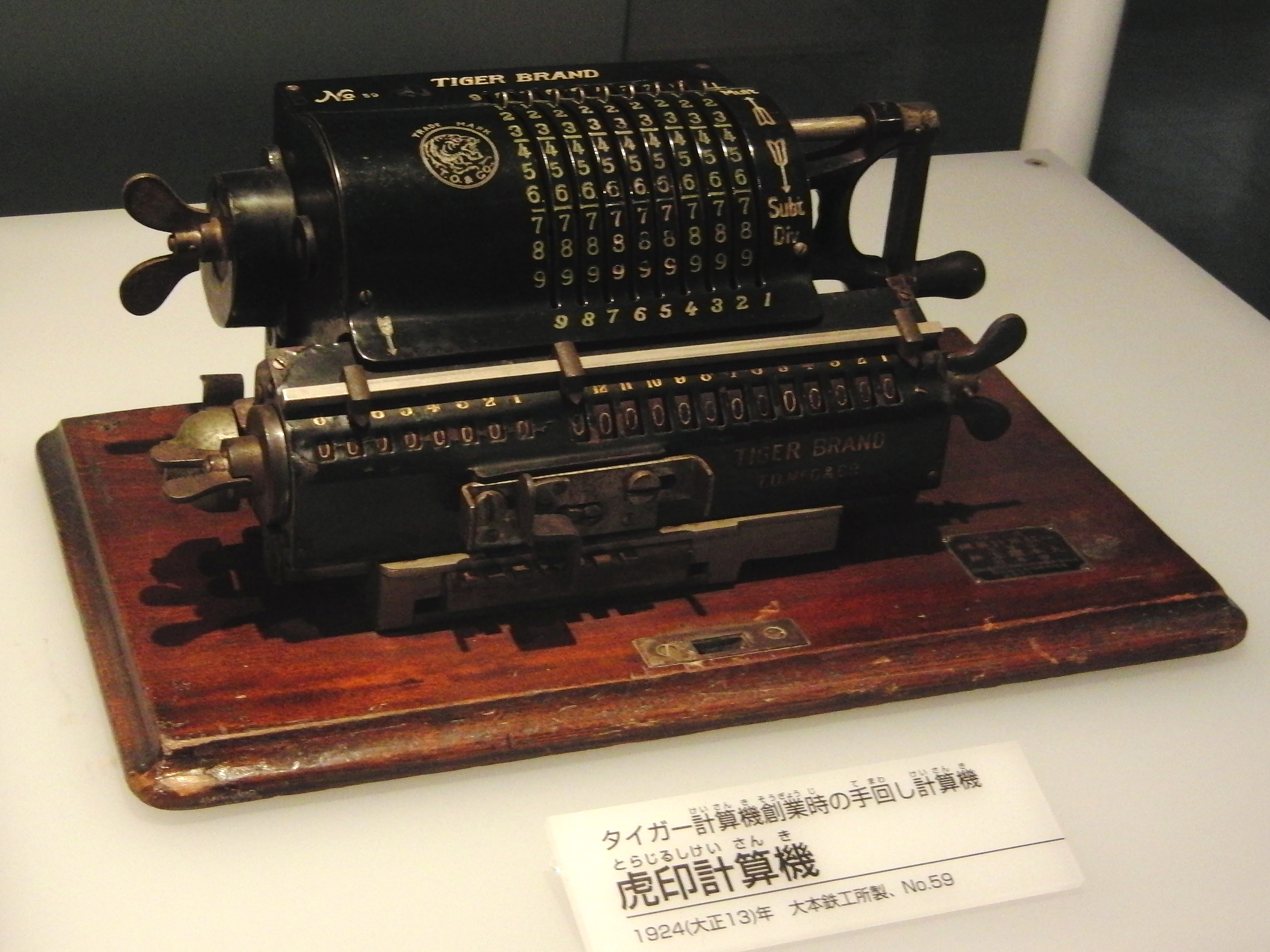 Tiger calculating machine, mechanical calculator. Exhibit in the National Museum of Nature and Science, Tokyo, Japan.